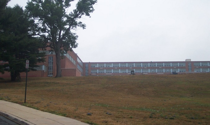 Catonsville High School